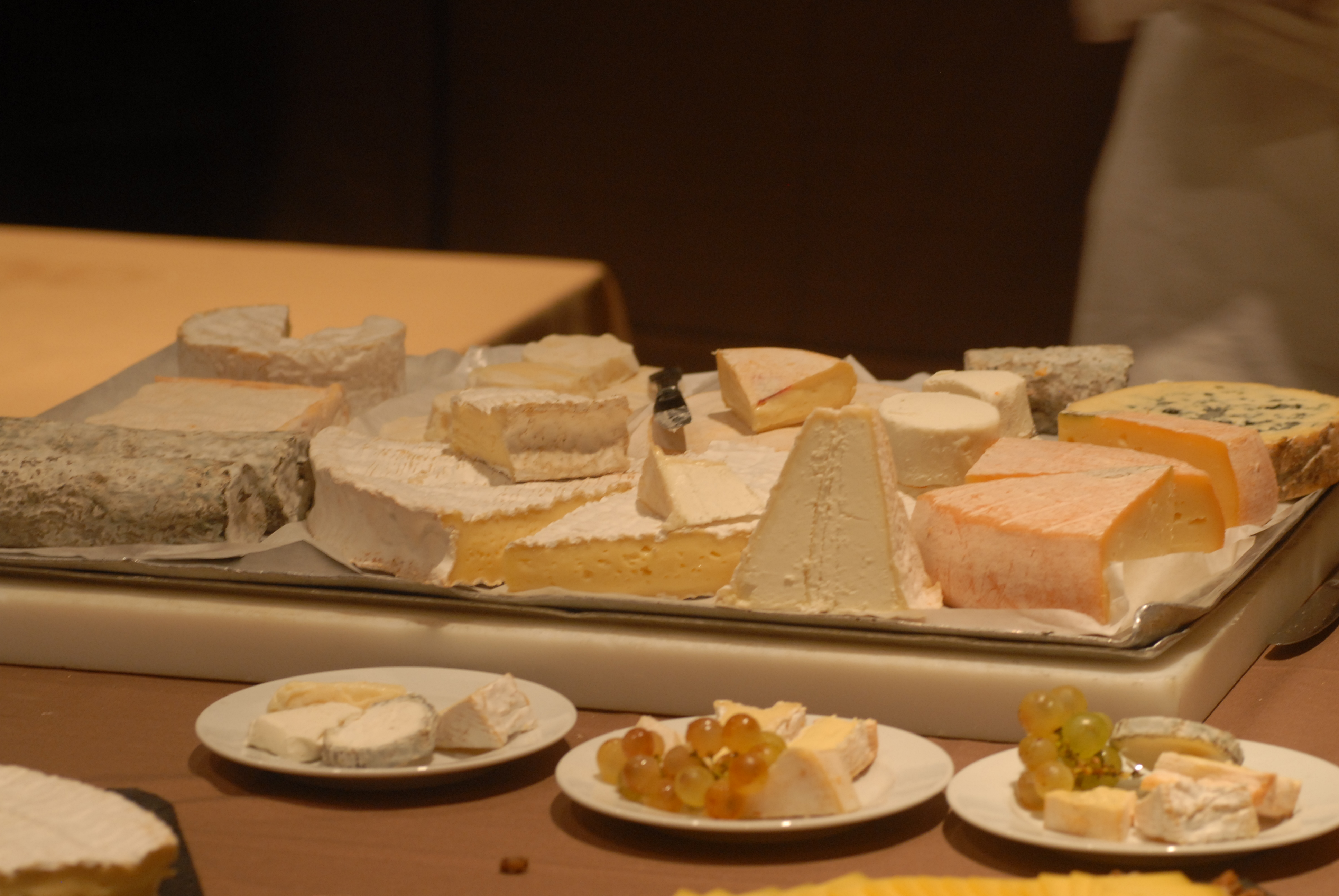 Wine and cheese reception at the 11th International Conference on Miniaturized Systems for Chemistry and Life Sciences (µTAS 2007 Conference).